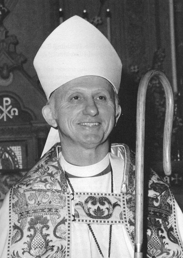 Rt. Rev. Alex Dockery Dixon, Jr. at his consecration as [Episcopal] Bishop of West Tennessee.